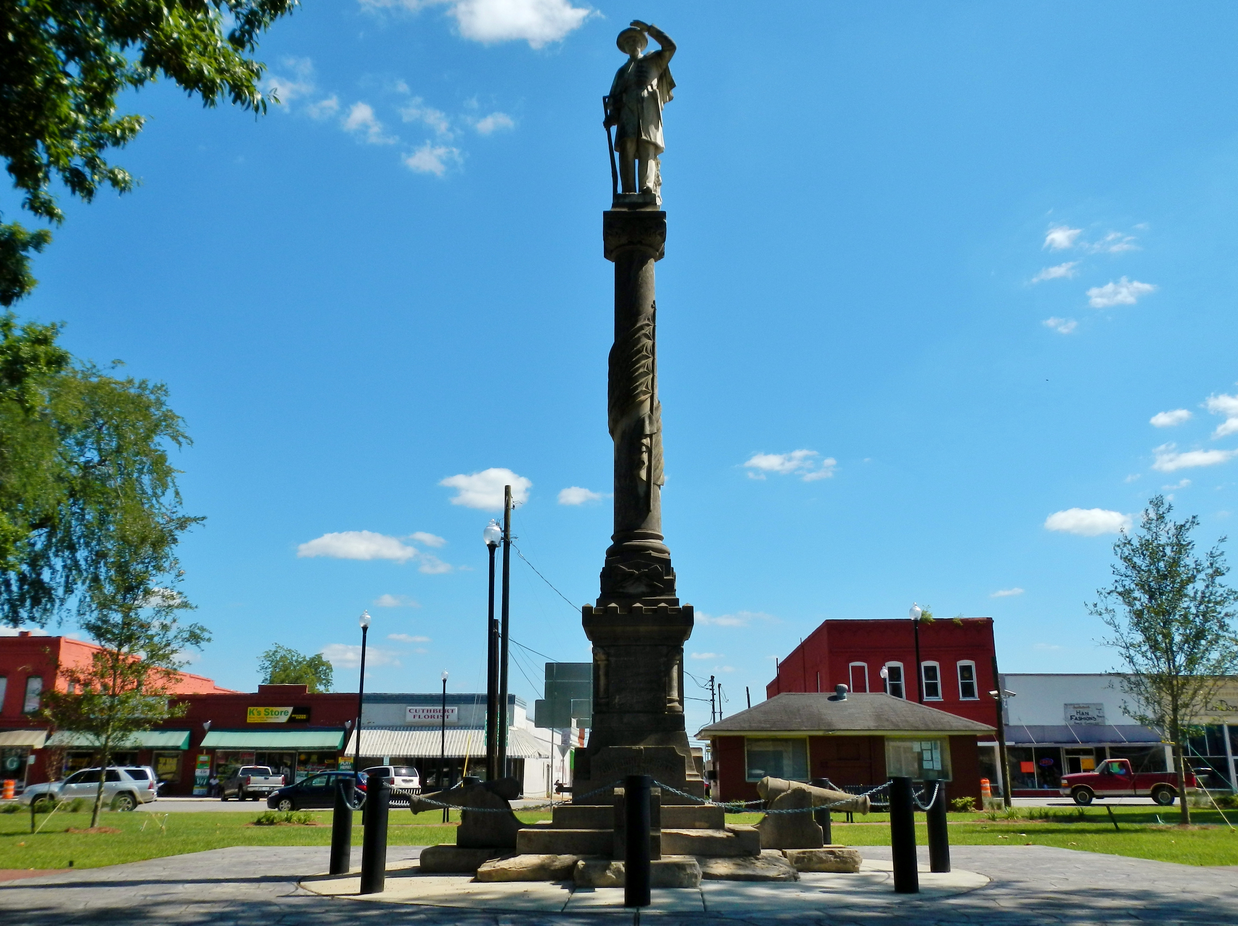 This is a photograph of Cuthbert, GA.